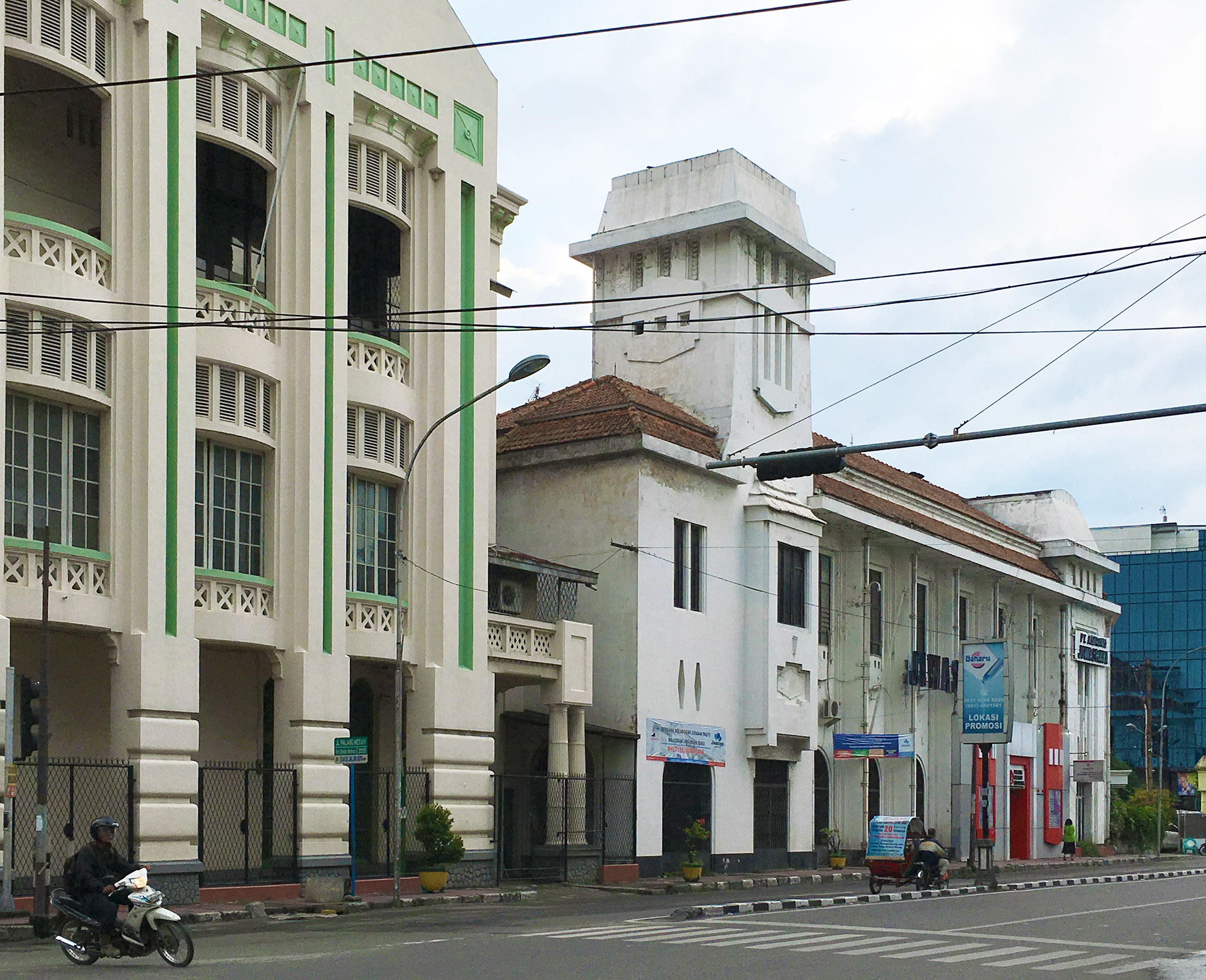 Jiwasraya insurance, Medan; formerly the NILLMIJ (1919)